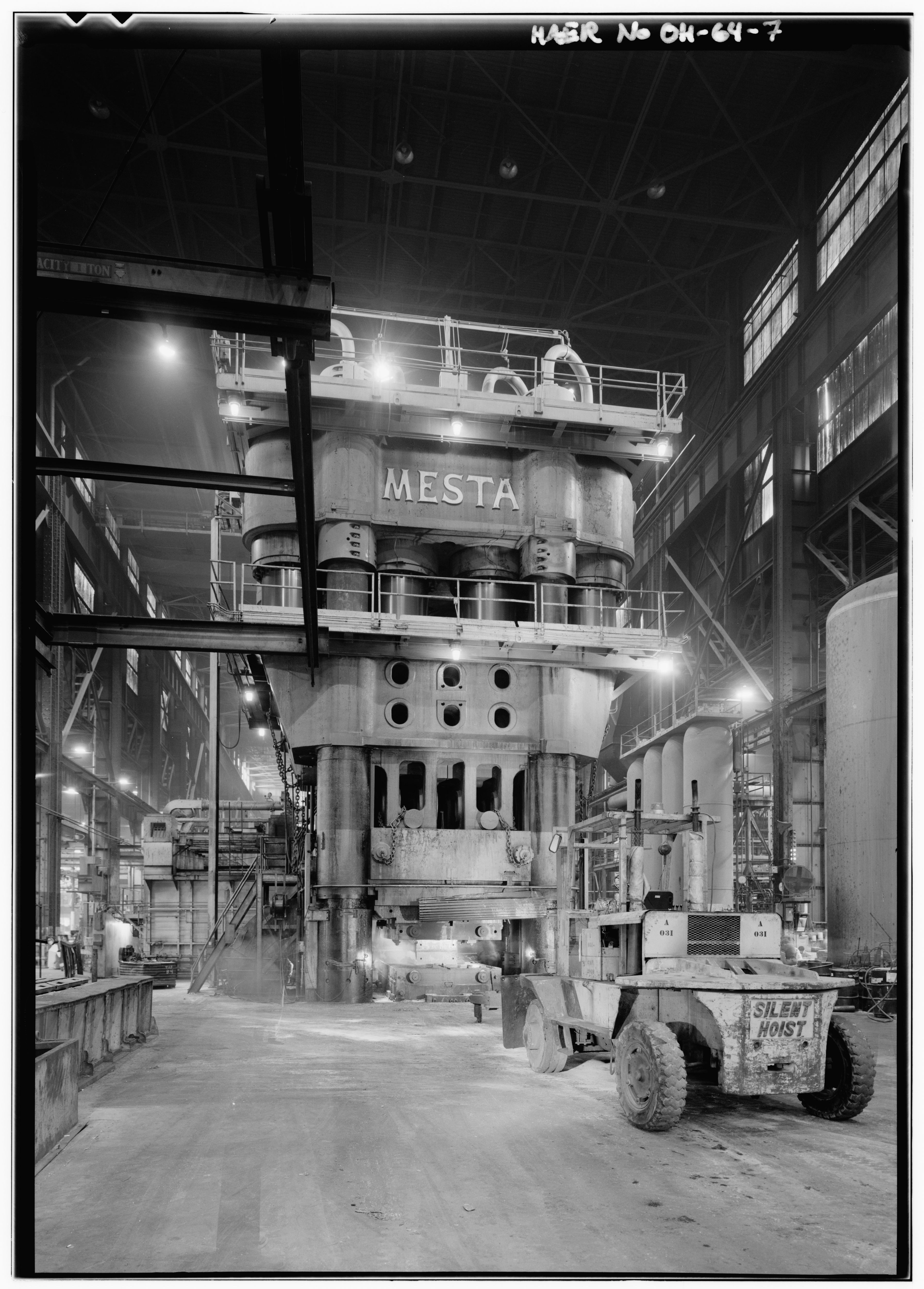 Mesta 50,000-ton closed die forging press, located in Air Force Plant 47, 1600 Harvard Avenue, Cleveland, Ohio. Also known as the Alcoa fifty, this is an ASME Historic Mechanical Engineering Landmark. This is the east side of the press.